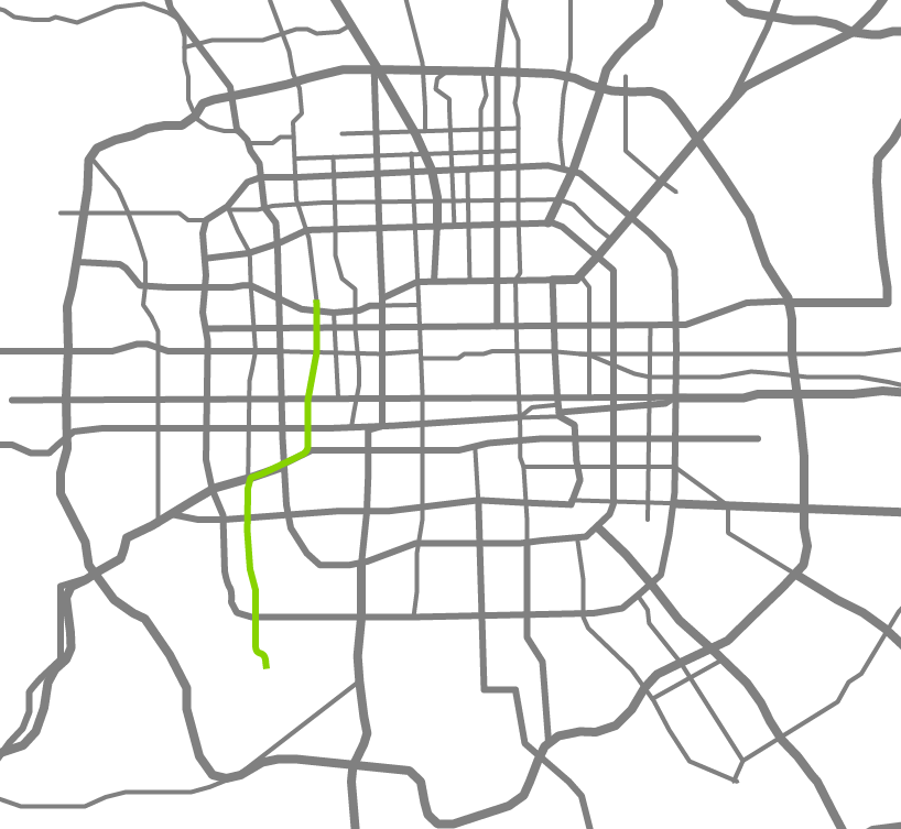 Map of Line 9, Beijing Subway, drawn to the scale.